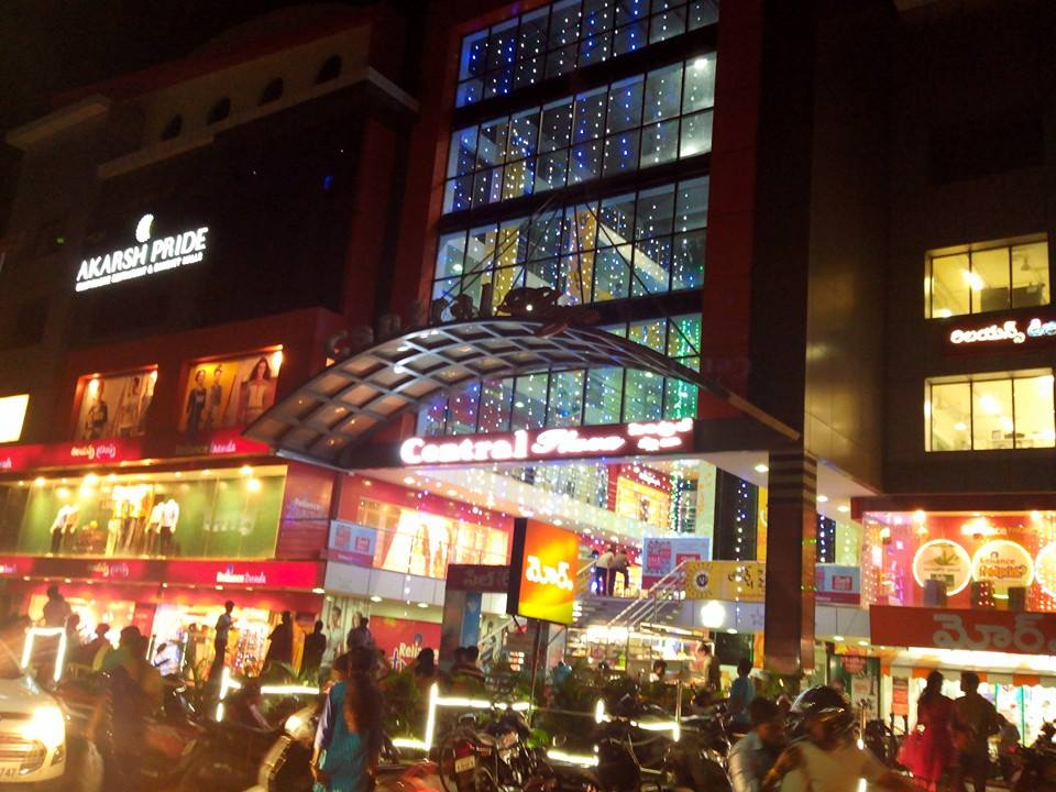 Central Plaza-Largest mall in city